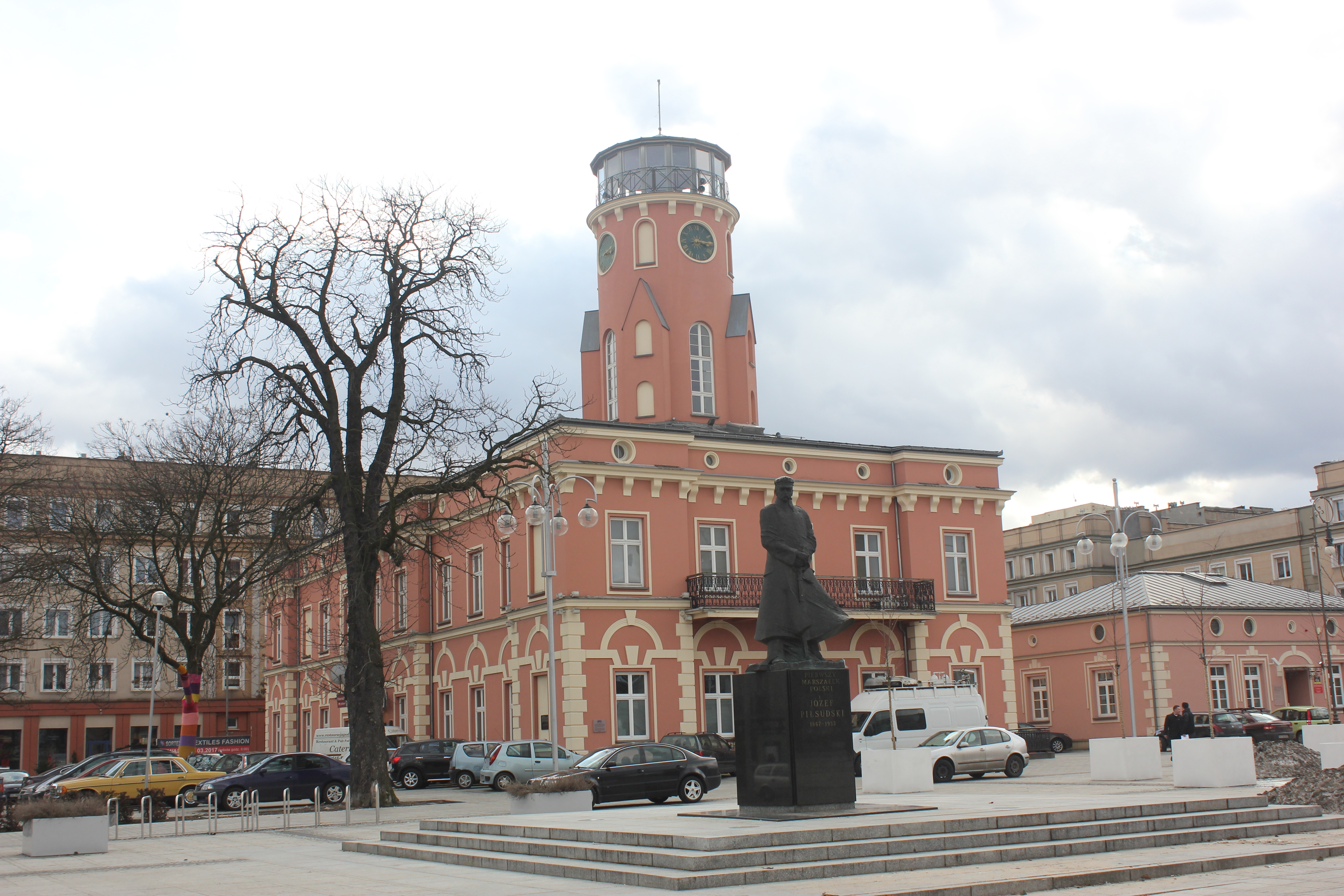 Częstochowa - town hall